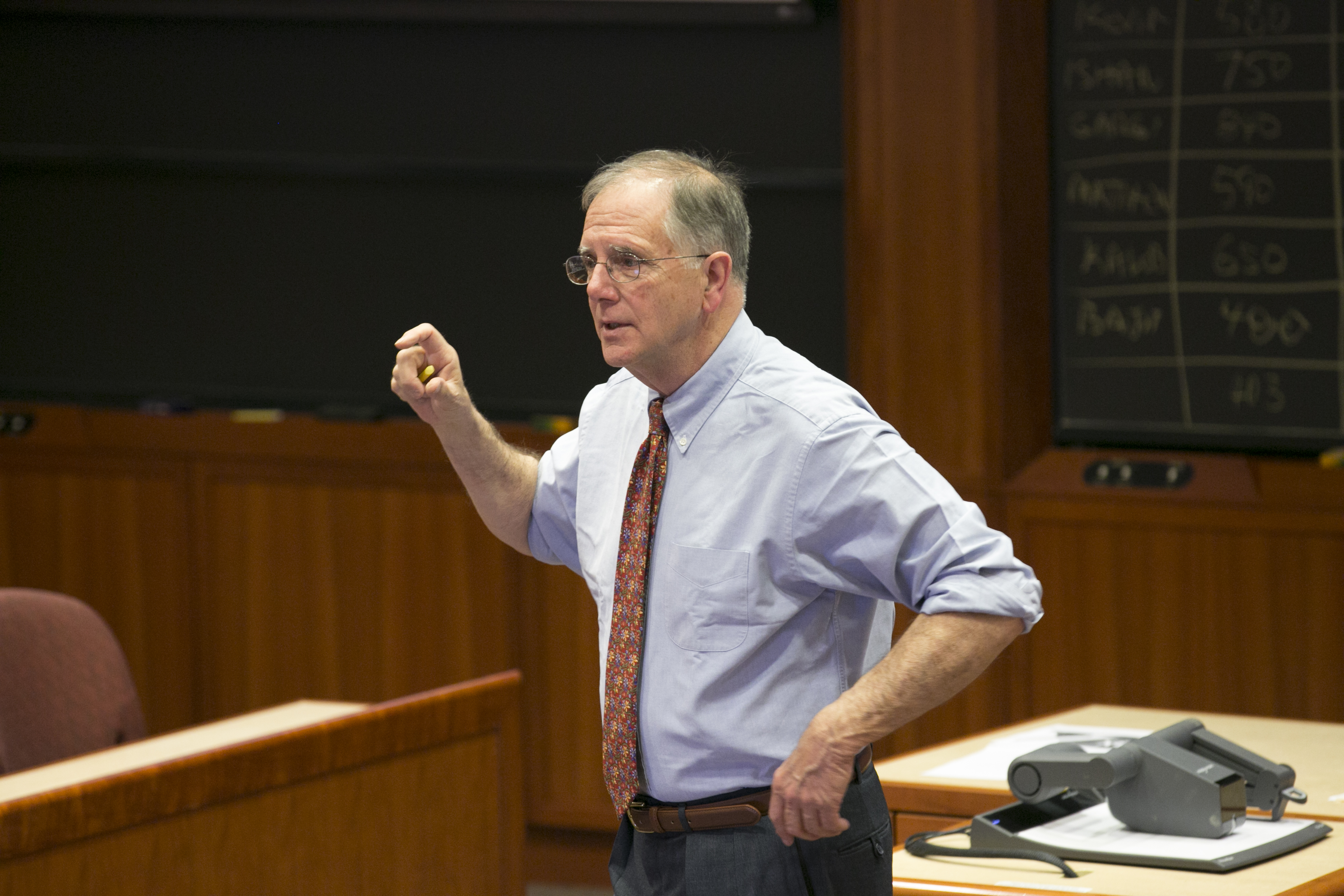 HBS Professor Michael Wheeler at HBS